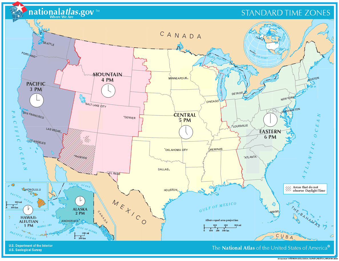 A map of the time zones of the United States; taken from a screenshot of a PDF file.